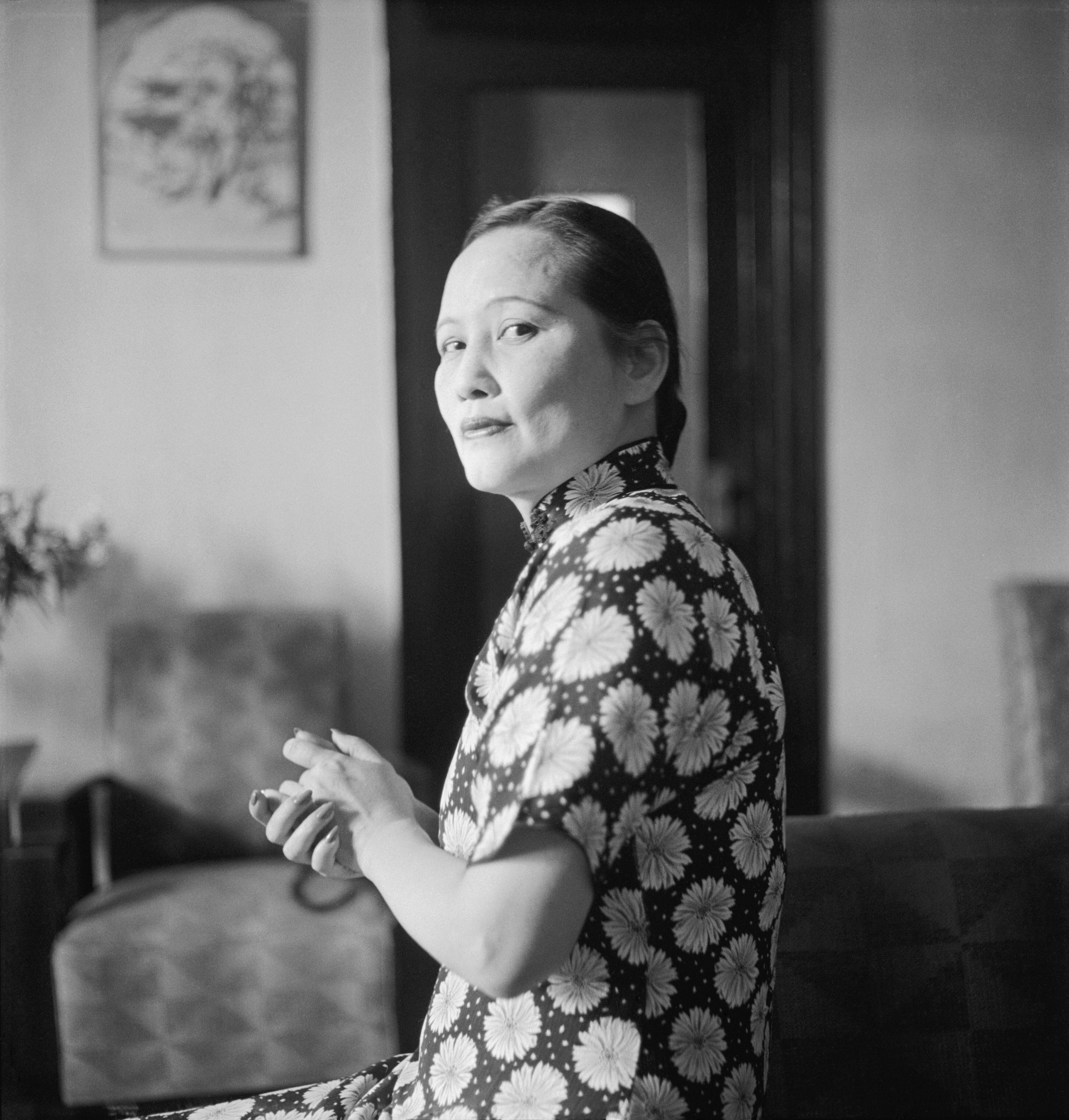 Cecil Beaton Photographs- Political and Military Personalities Political Personalities: Half length portrait of Madame Sun Yat-Sen, widow of the founder of the Chinese Republic, in Chungking.